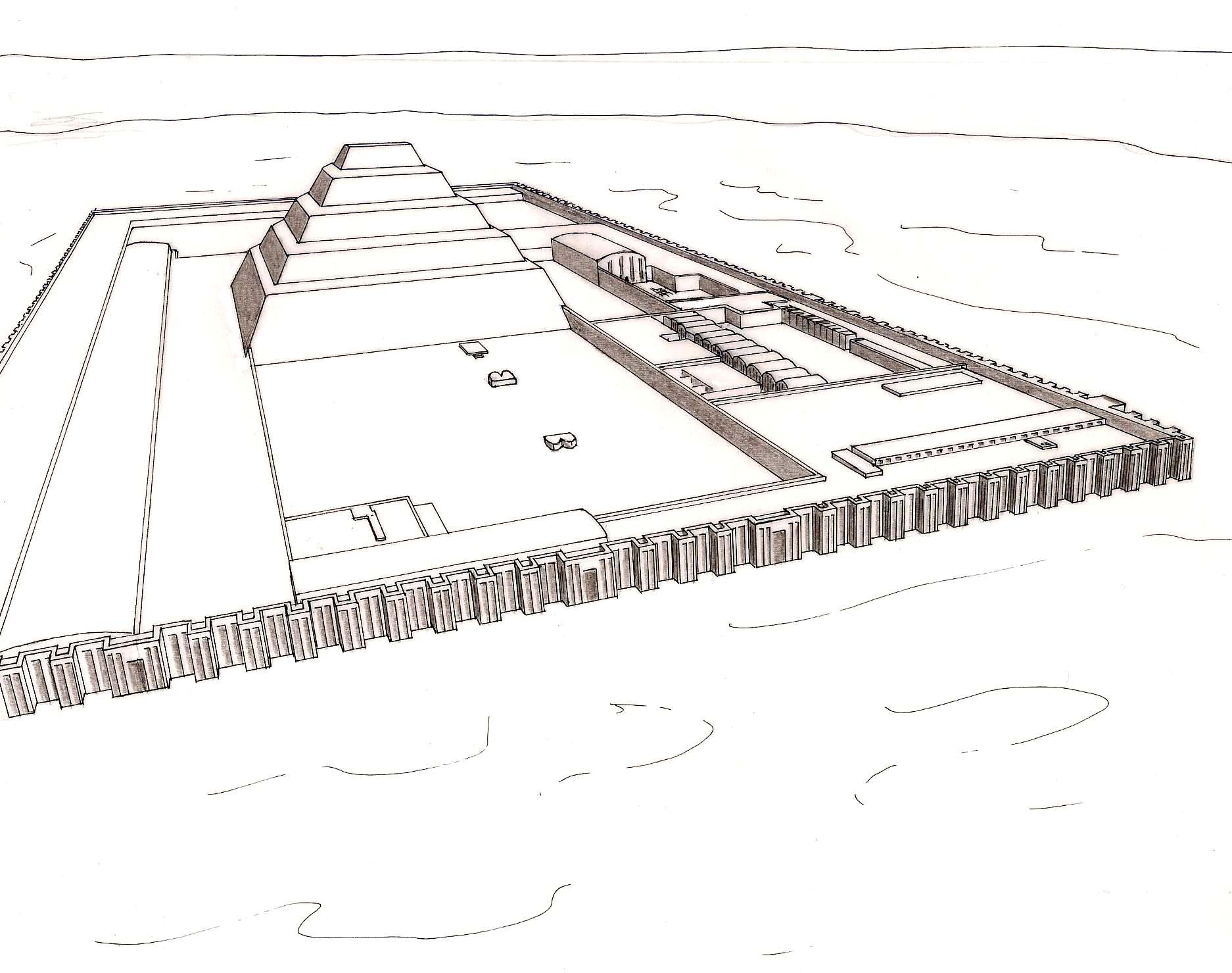 Reconstruction of the Djoser pyramid complex